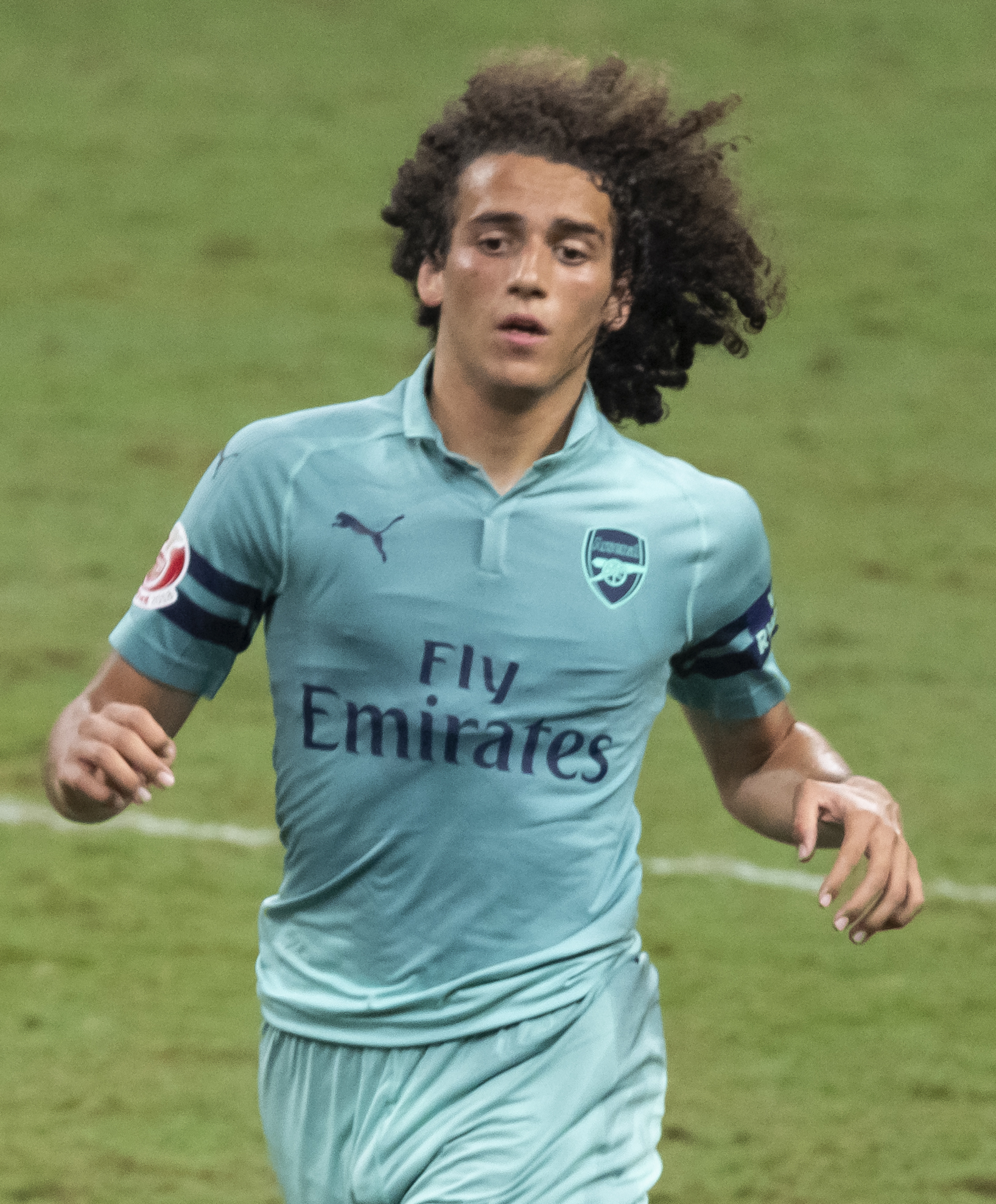 Mattéo Guendouzi Arsenal FC Singapore National Stadium International Champions Cup 2018 versus PSG